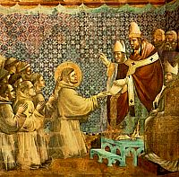 Bildausschnitt in Thumbnail-Größe aus dem Bild "Giotto - Legend of St Francis - -07- - Confirmation of the Rule.jpg", welches ein Gemälde Giottos wiedergibt. Part and thumbnail from wikipedias "Giotto - Legend of St Francis - -07- - Confirmation of the Rule.jpg", which is a painting from Giotto.